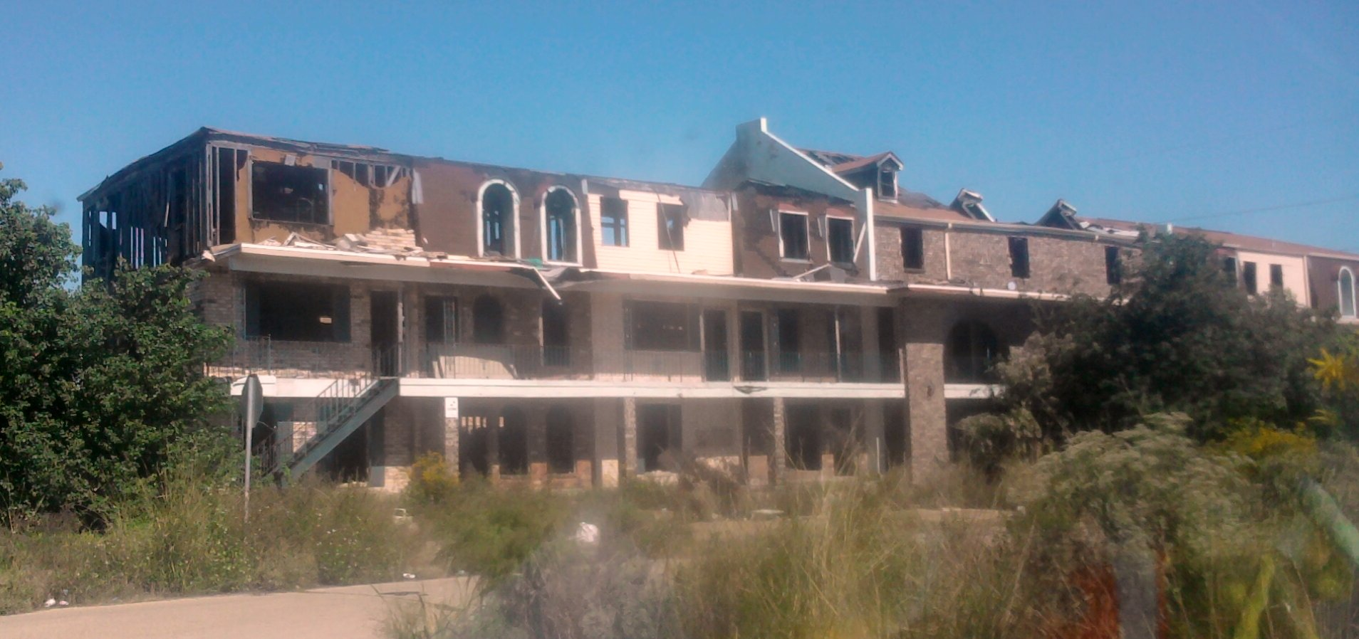 Vacant and decaying apartment complex in Chalmette, Louisiana, 4 years after Hurricane Katrina and the levee failure flood disaster hit the area.